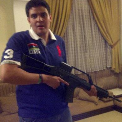 A libyan freedom fighter hold in Heckler & Koch G36 Assault Rifle